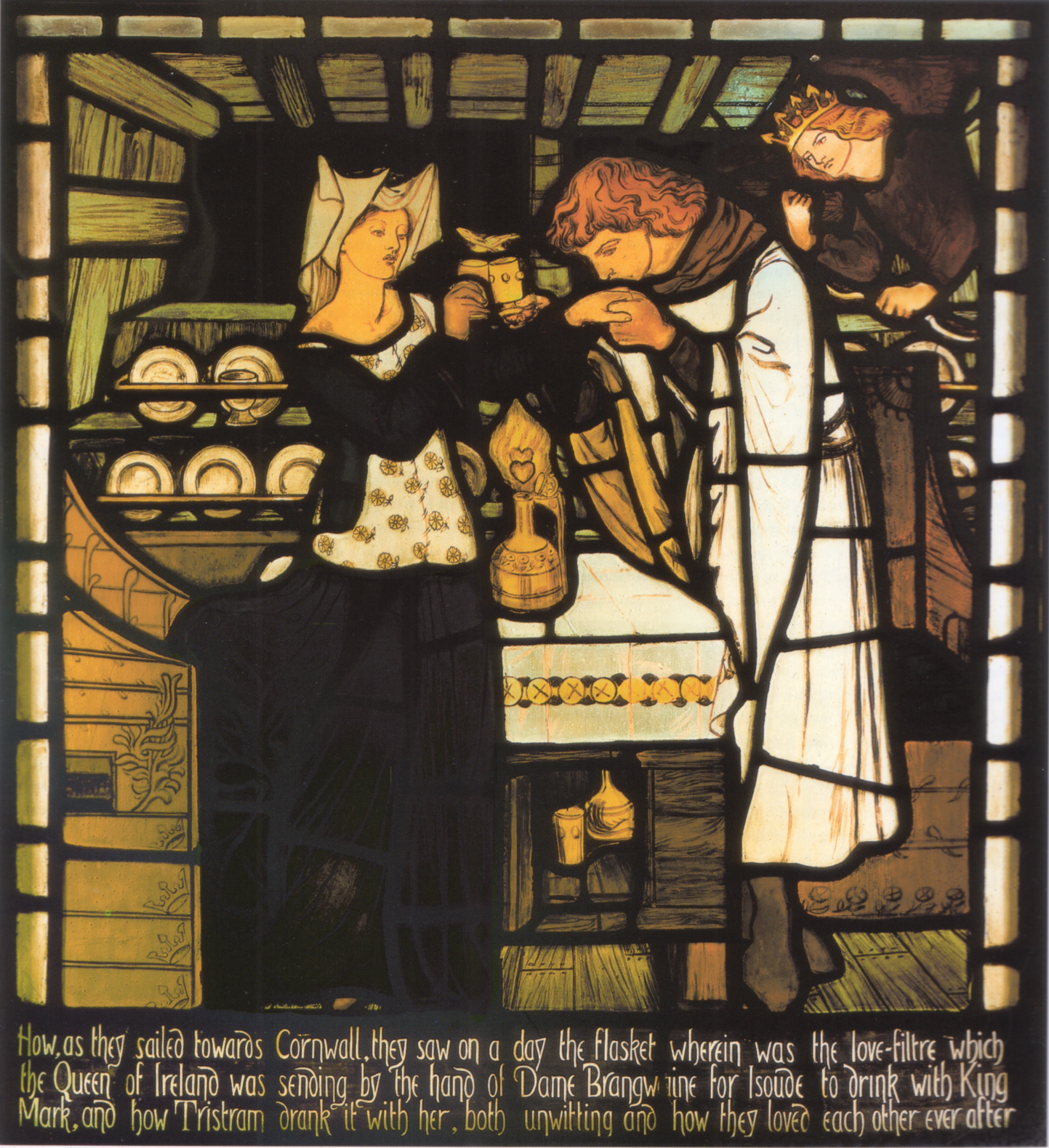 Sir Tristram and la Belle Ysoude drinking the love potion, one of a set of 13 stained glass panels commissioned from Morris, Marshall, Faulkner & Co. by Walter Dunlop for Harden Grange near Bingley Yorkshire. This is one of two panels designed by Rossetti. Other panels in the series were designed by Arthur Hughes, Valentine Prinsep, Sir Edward Burne-Jones, Ford Madox Brown, and William Morris. Bradford Art Gallery.